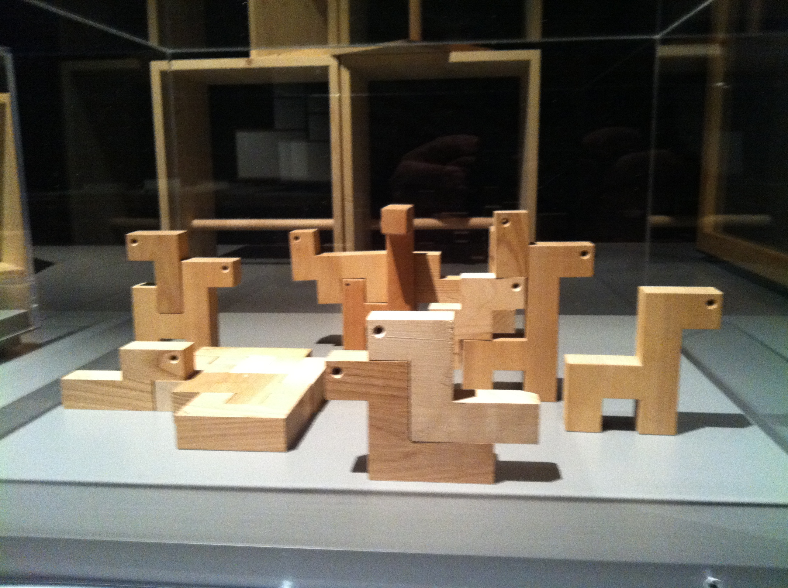 Systems design- The Ulm school. Exhibit at Disseny Hub Barcelona- DHUB HFG Hans von klier- Module animal toys- 1958